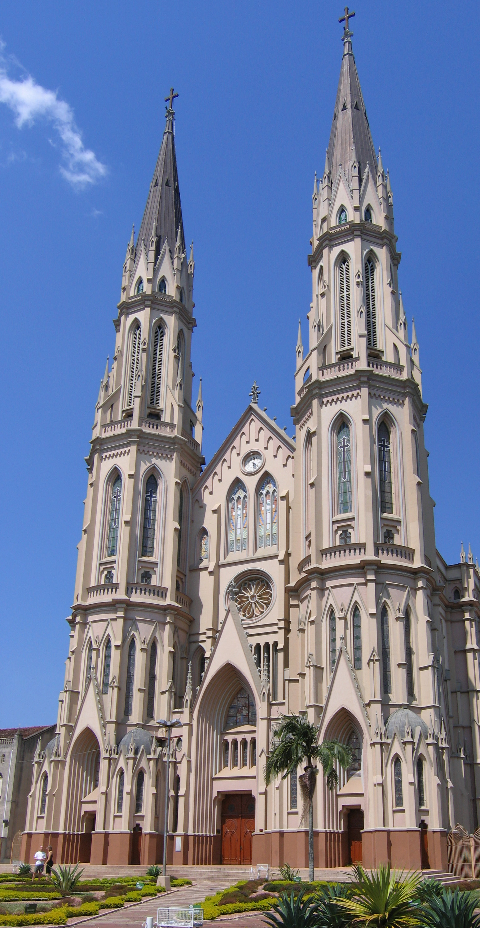 Catedral de São João Batista (Santa Cruz do Sul) own photo, two digital photos stitched together for fully vertically aligned features see Image:Santa Cruz do Sul catedral vertical 2005-03-21.jpg